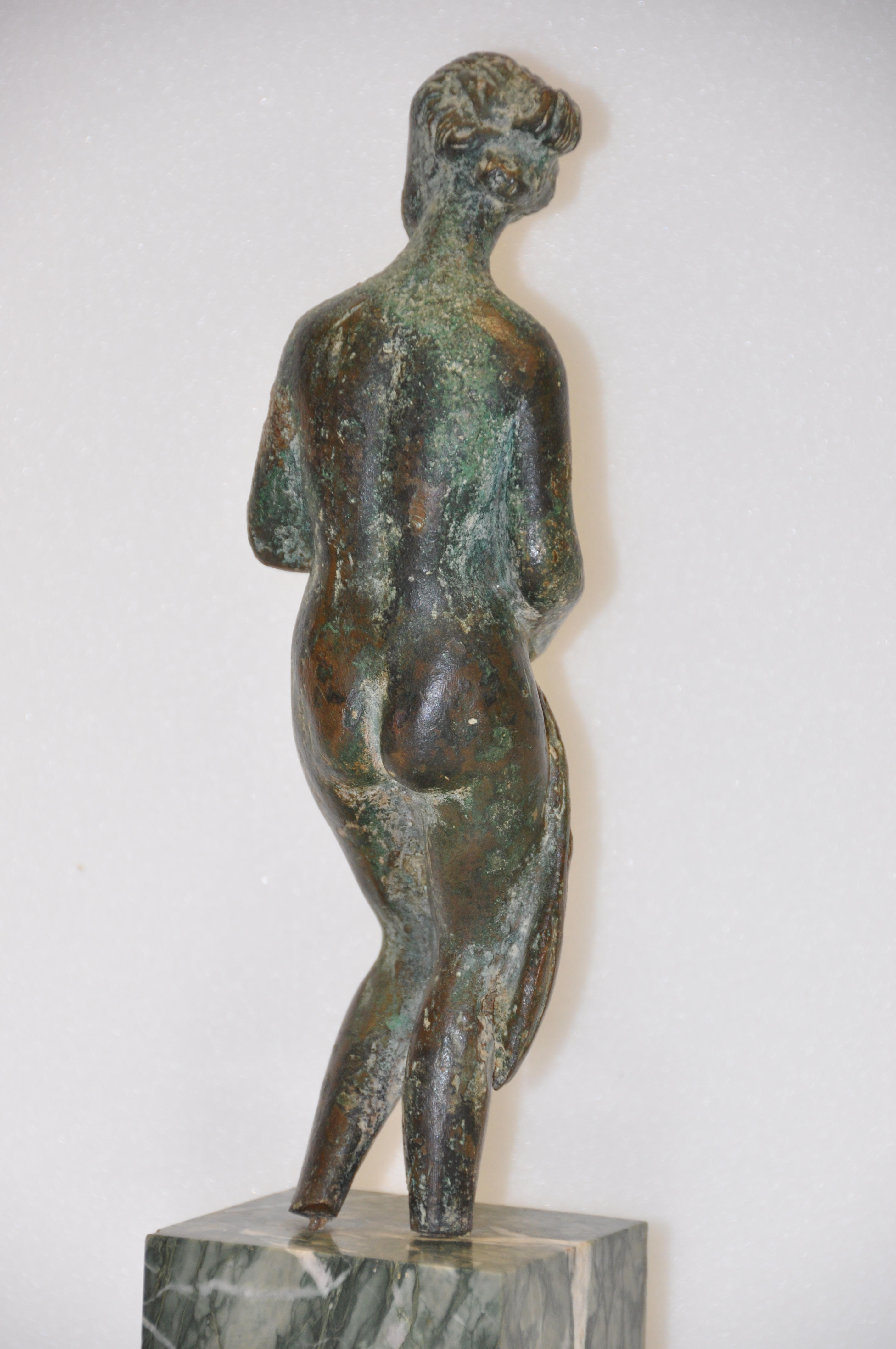 Aphrodite / Venus pudica (modest Venus). Bronze statuette called "Venus of Barcelona". Barcelona City History Museum MUHBA